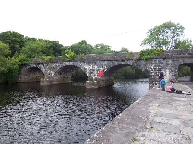 Knockvicar Bridge Crosses the Boyle River. Looking upstream.